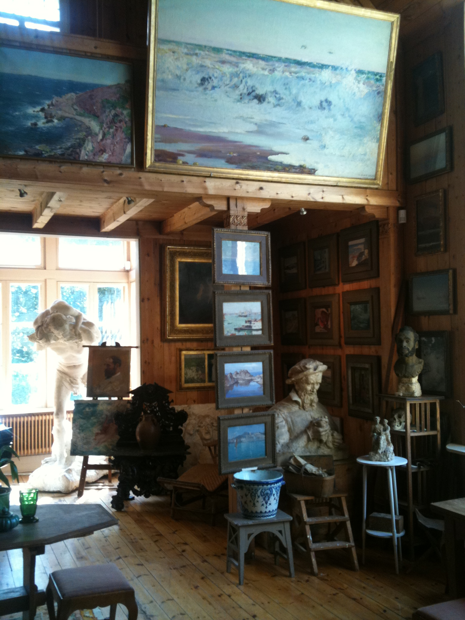 Brucebo, atelier towards South